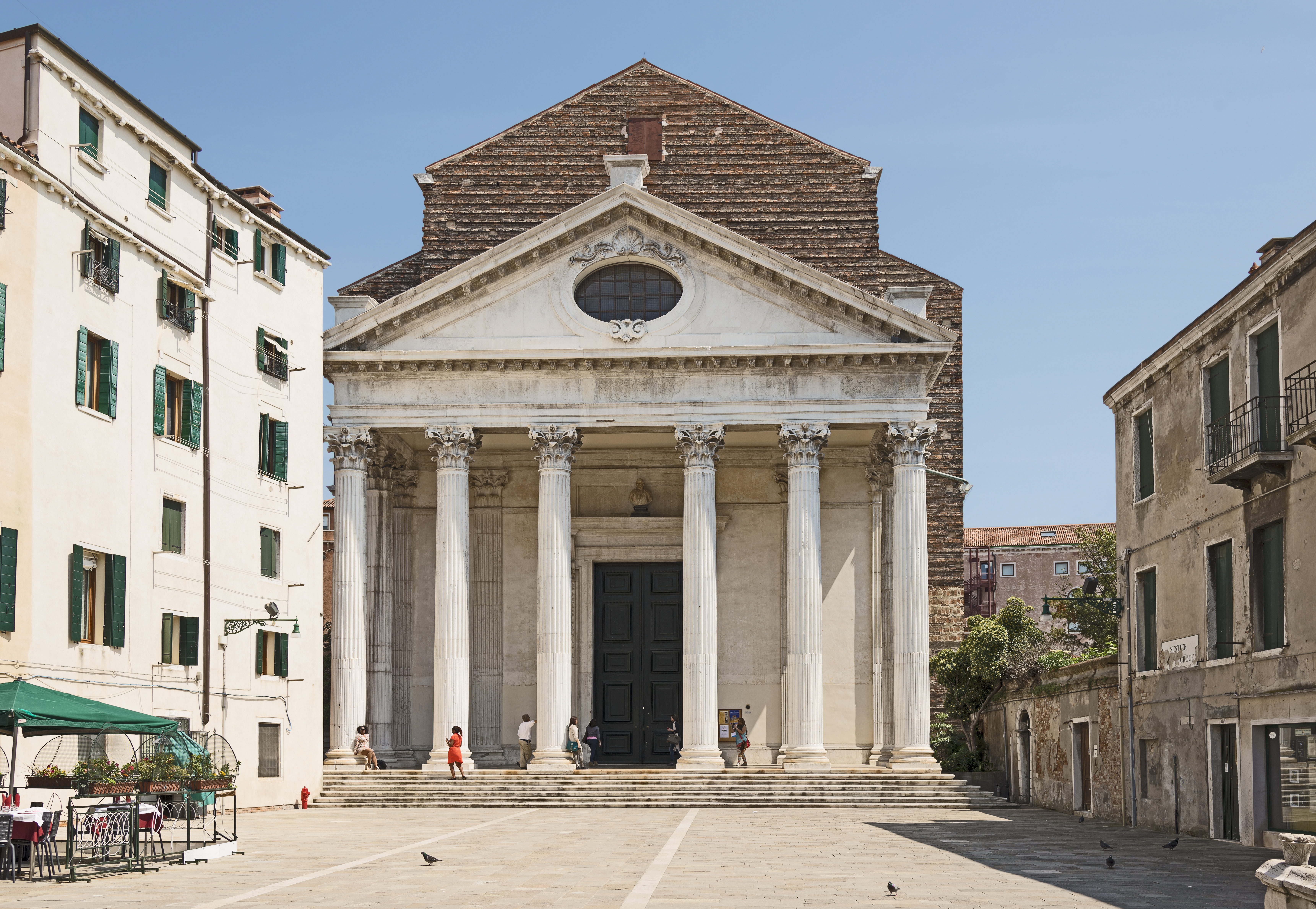 Chiesa di San Nicola da Tolentino in Venice. Facade on Campo dei Tolentini .